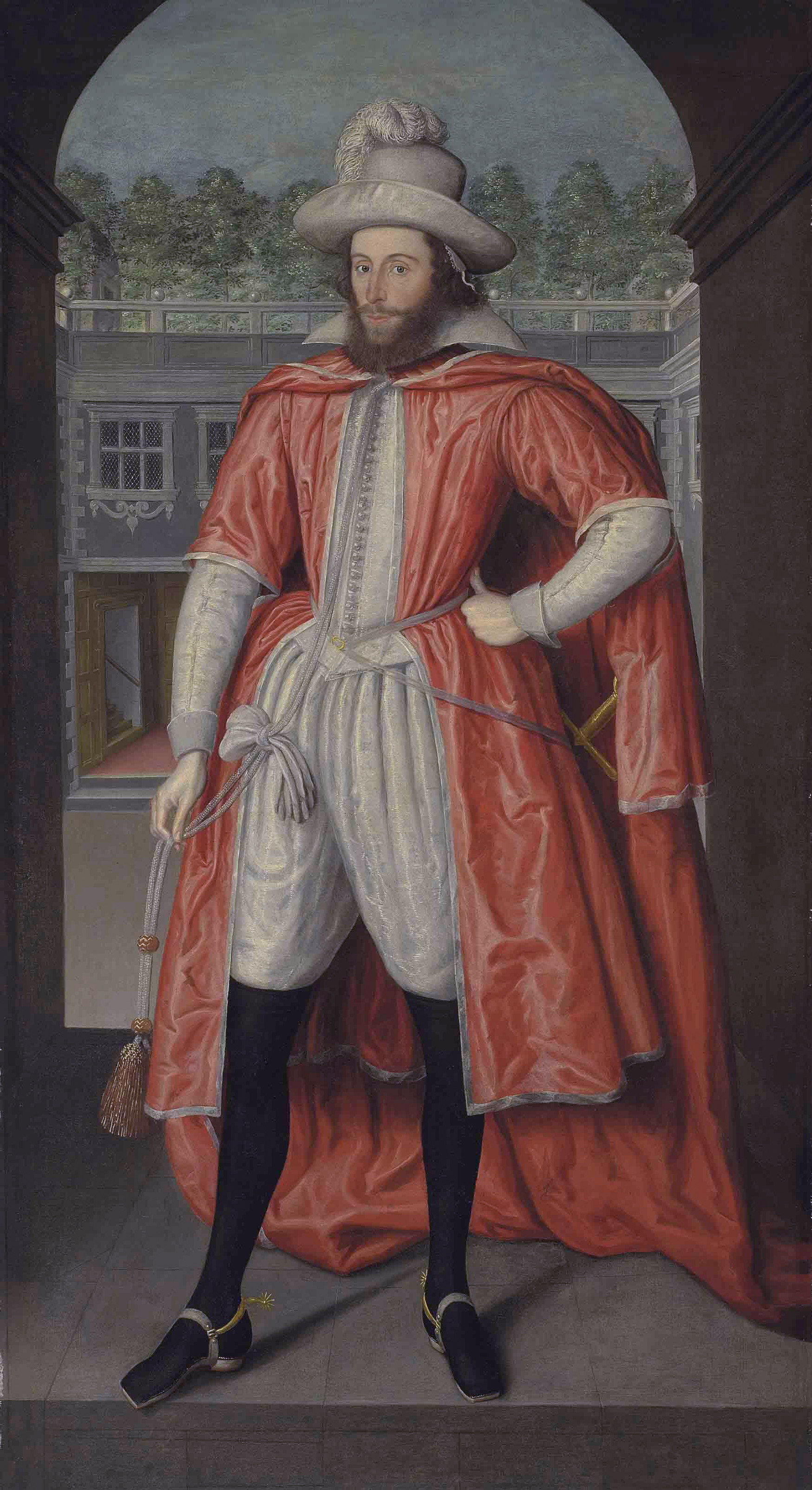 William Pope, 1st Earl of Downe (1573-1631), full-length, in his robes as a Knight of the Bath oil on canvas 214 x 117.7 cm 1603 or later